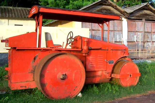 An abandoned diesel road roller found in Kollam, Kerala